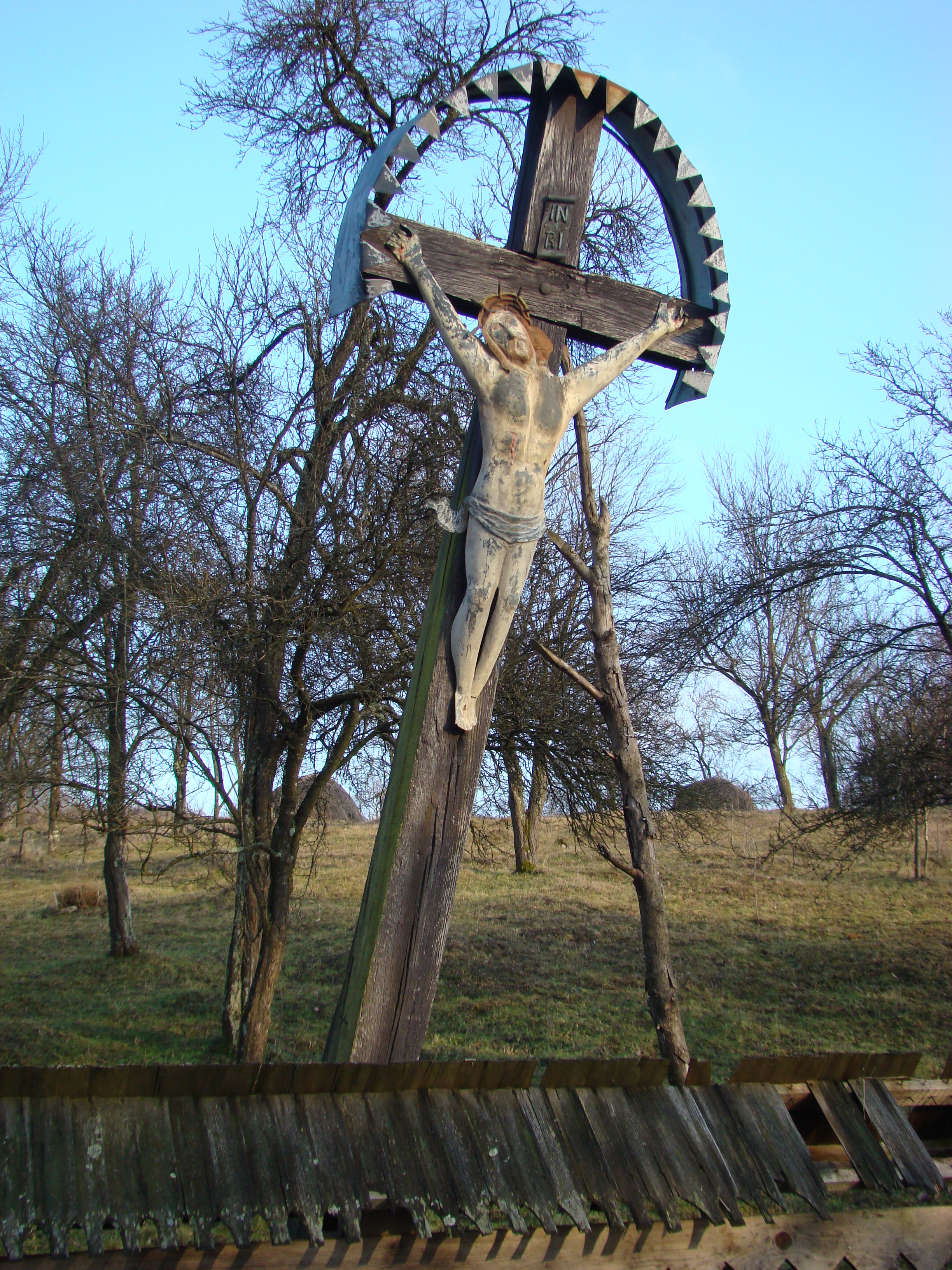 Wooden church in Domnin, Sălaj